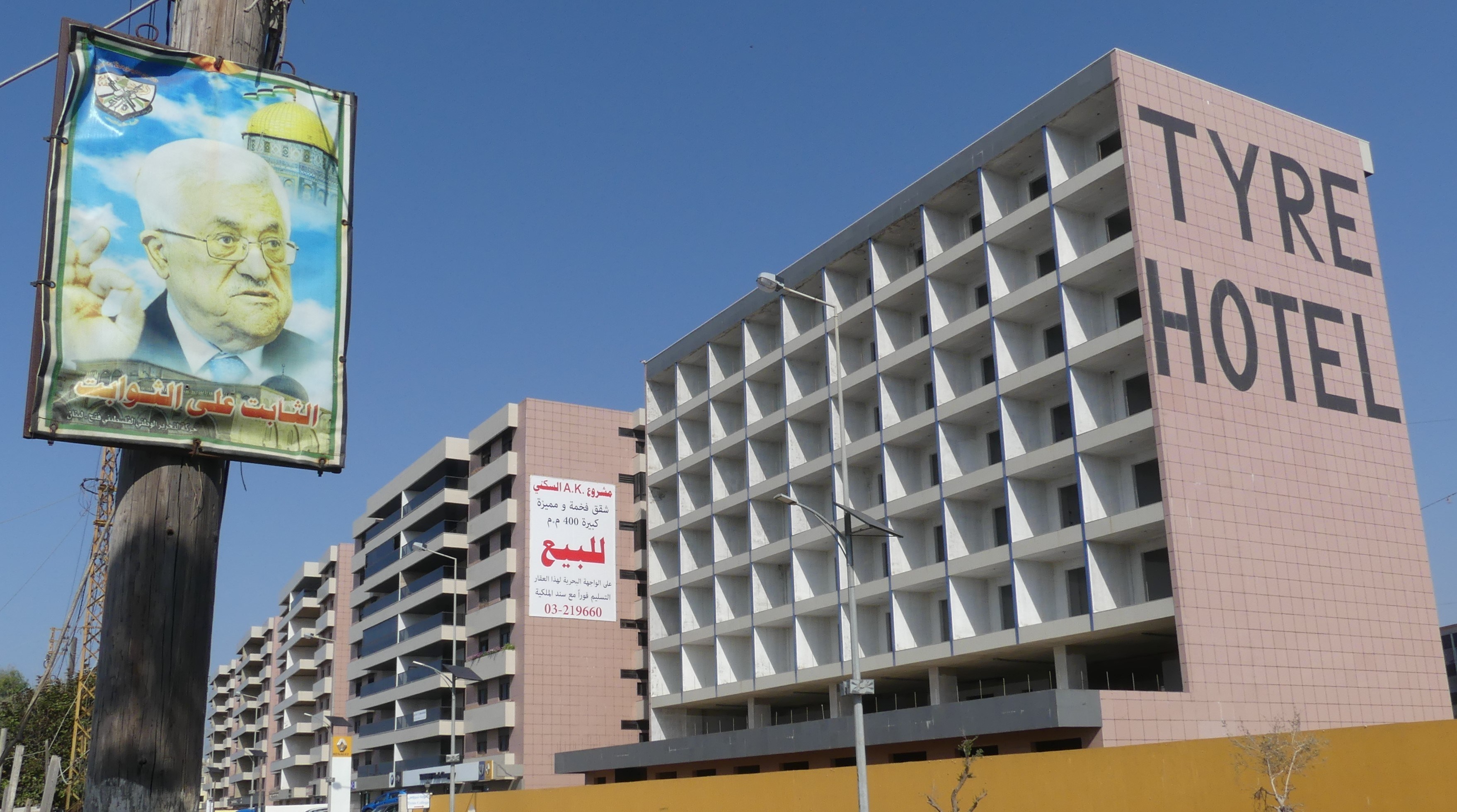 Jal Al Bahar area in Tyre/Sour, Southern Lebanon, with a PLO leader Mahmoud Abbas on the left had side which has housed an illegal "gathering" for Palestinian refugees since 1948, and the unfinished buildings of the "Tyre Hotel" on the right hand side with a "For Sale" poster in Arabic